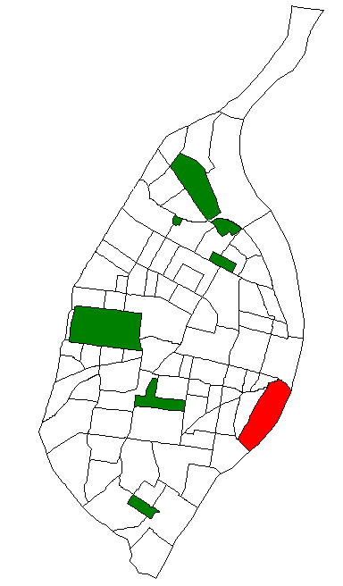 Map of St. Louis Neighborhood #20